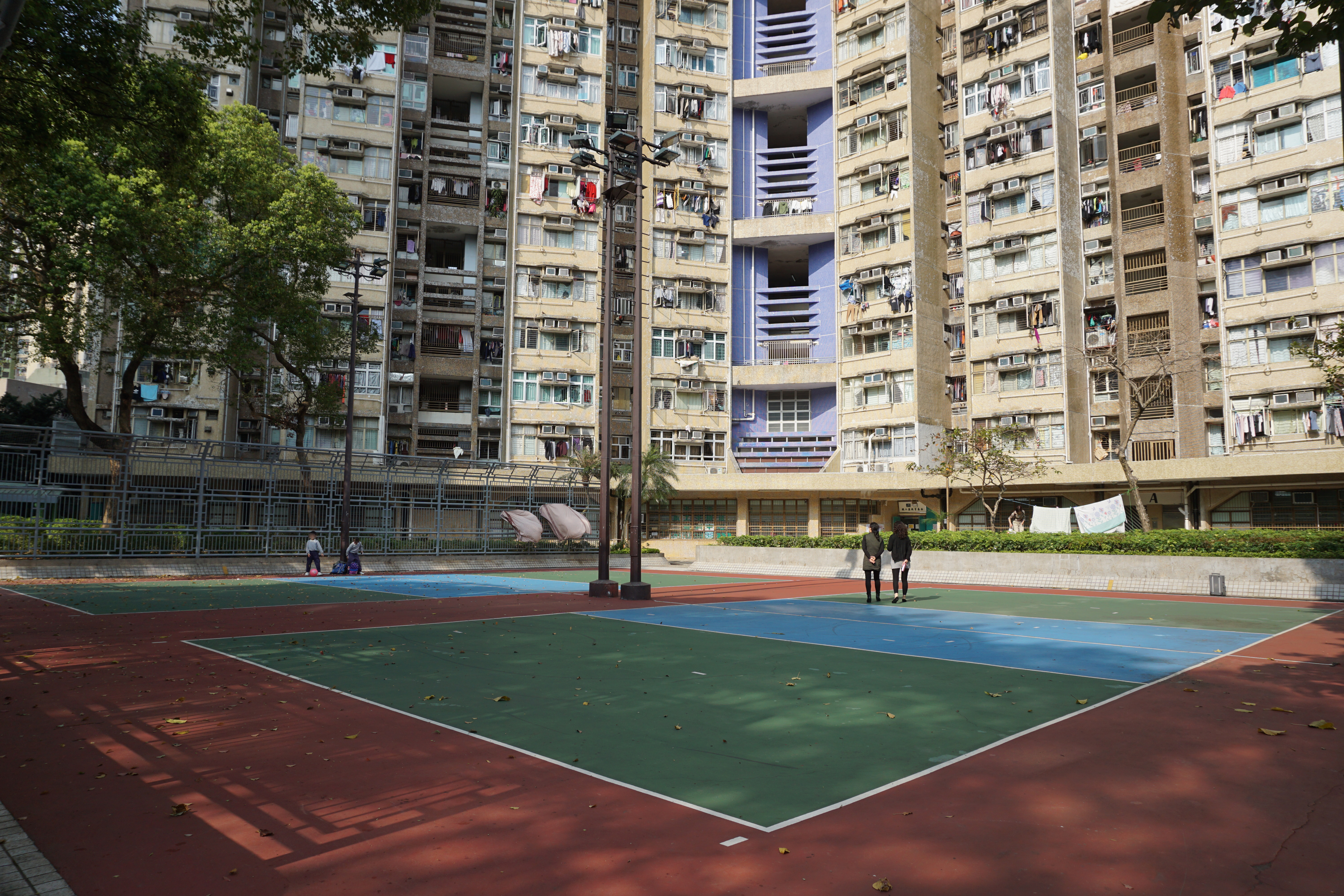 Tai Wo Estate in Tai Po, Hong Kong.